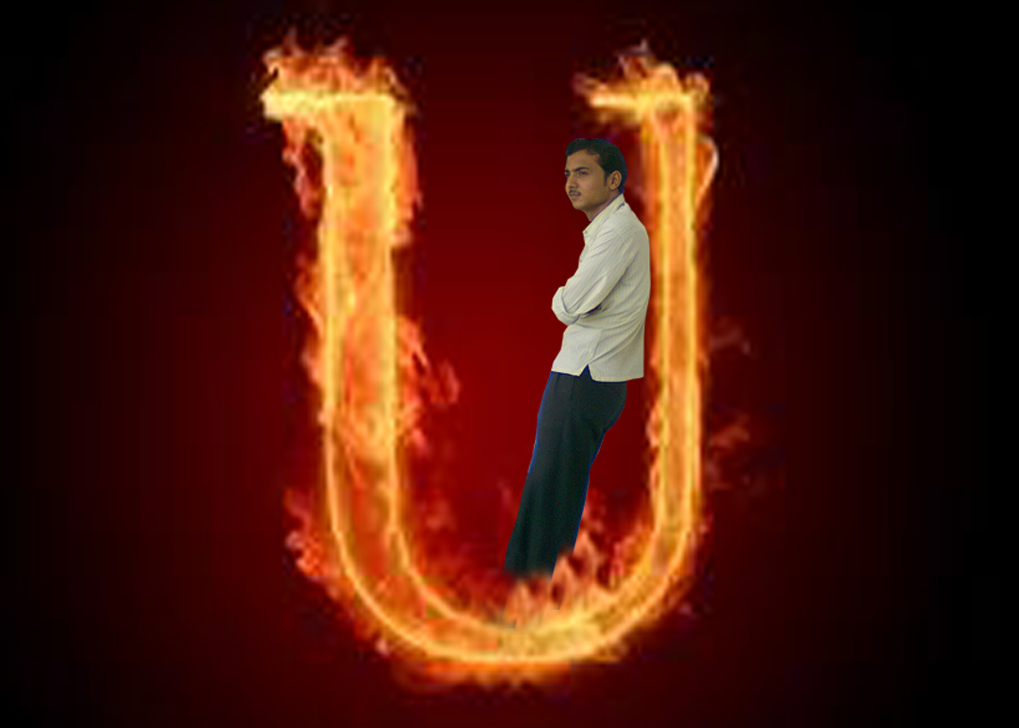 Upendra Chaubey Computer Dept. Incharge All India Board of Computer Education Bandikui (Dausa) Raj.